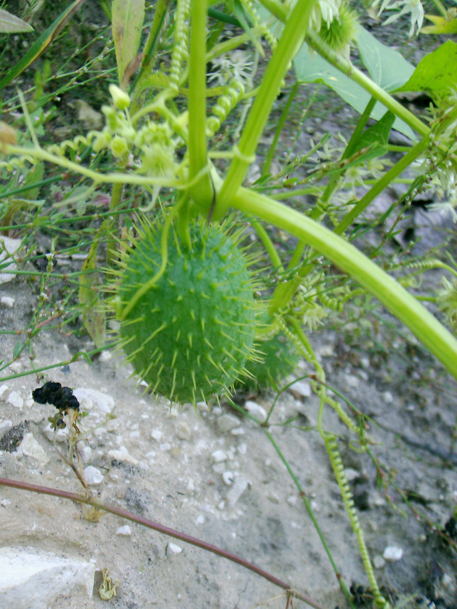 Echinocystis lobata — Wild cucumber, fruit.